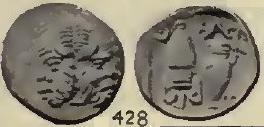 Greek coins and their parent cities (1902) Author: Ward, John, 1832-1912; Hill, George Francis, Sir, 1867-1948 Subject: Coins, Greek; Numismatics, Greek; Greece -- Description, geography; Italy -- Description and travel; Turkey -- Description and travel Publisher: London : Murray Possible copyright status: NOT_IN_COPYRIGHT Language: English Call number: AKB-0671 Digitizing sponsor: MSN Book contributor: Robarts - University of Toronto Collection: toronto Scanfactors: 7